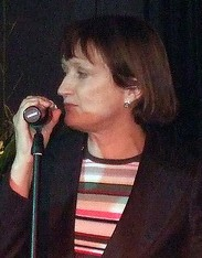 UK Secretary of States for Culture, Media and Sport